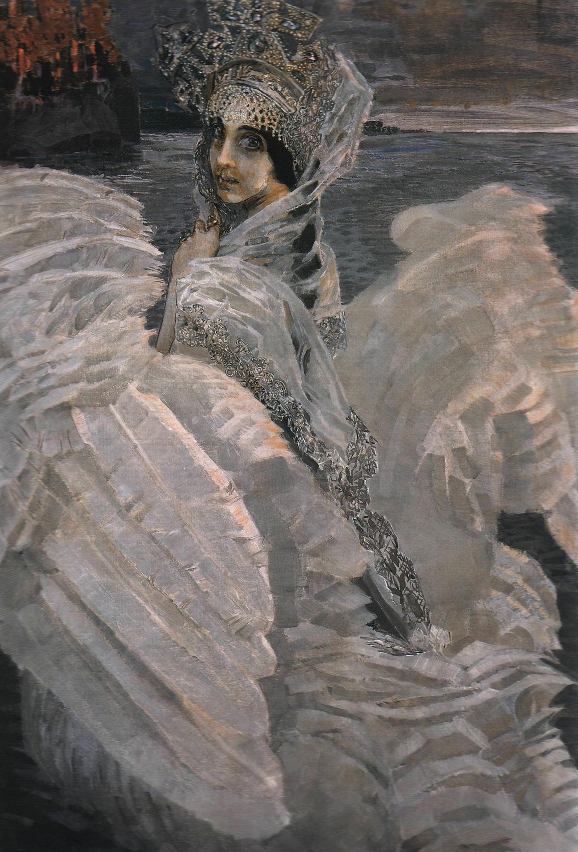 The Swan Princess by Mikhail Aleksandrovich Vrubel, based on the The Tale of Tsar Saltan opera of Rimsky-Korsakov (which was based on the fairytale of the same name by Pushkin). Vrubel designed the decor and costumes for this opera. The part of the Swan Princess was performed by his wife, N. Zabela-Vrubel.